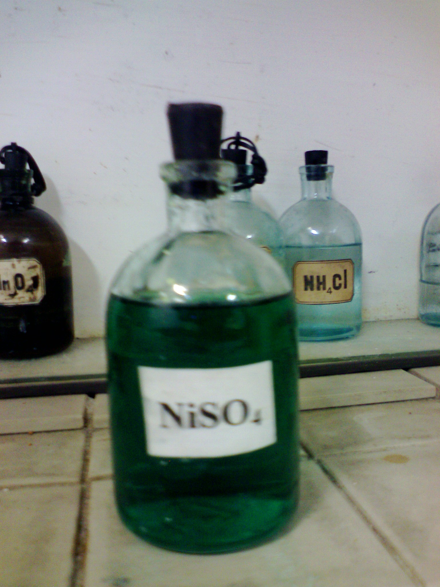 Nickel sulfate, which has a green color in a jar.